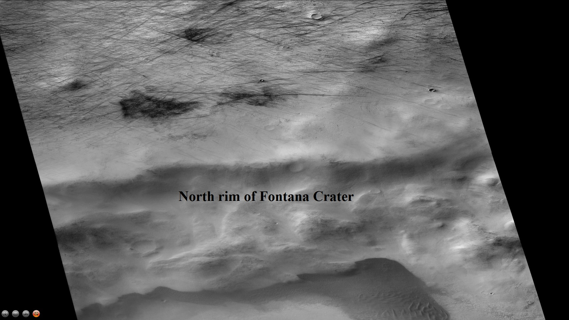 Fontana Crater showing dust devil tracks, as seen by CTX